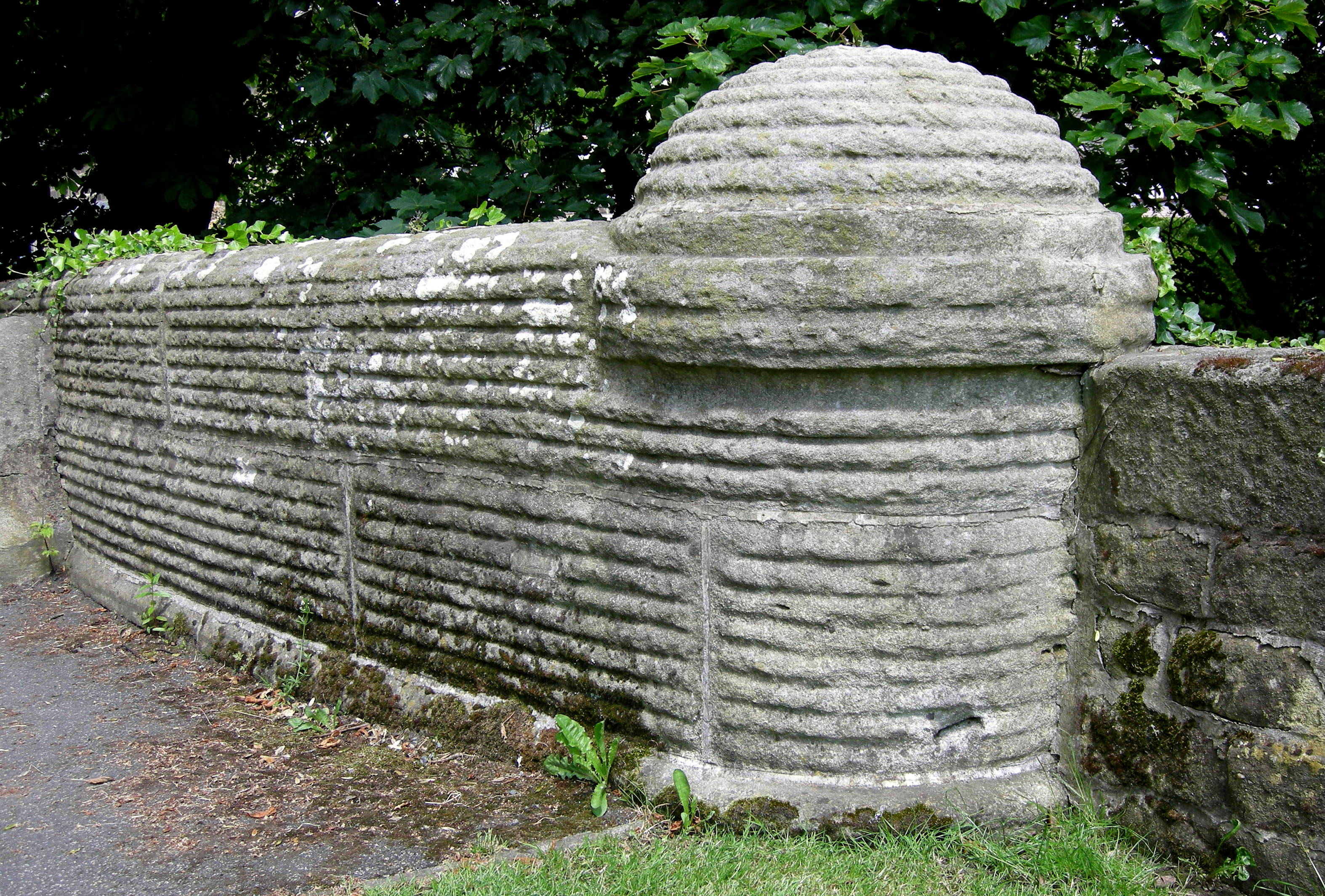 Stonework on the bridge at Burn Bridge, Harrogate, North Yorkshire, England. It has been suggested that this stonework is 18th century.